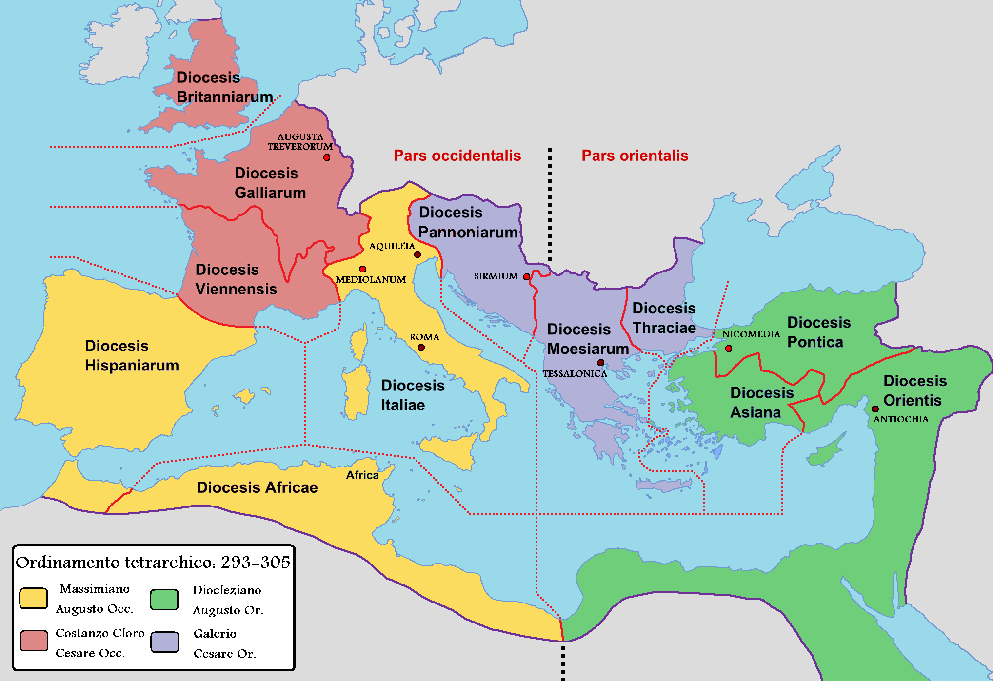 Map of the Roman Empire with dioceses created by Diocletien.